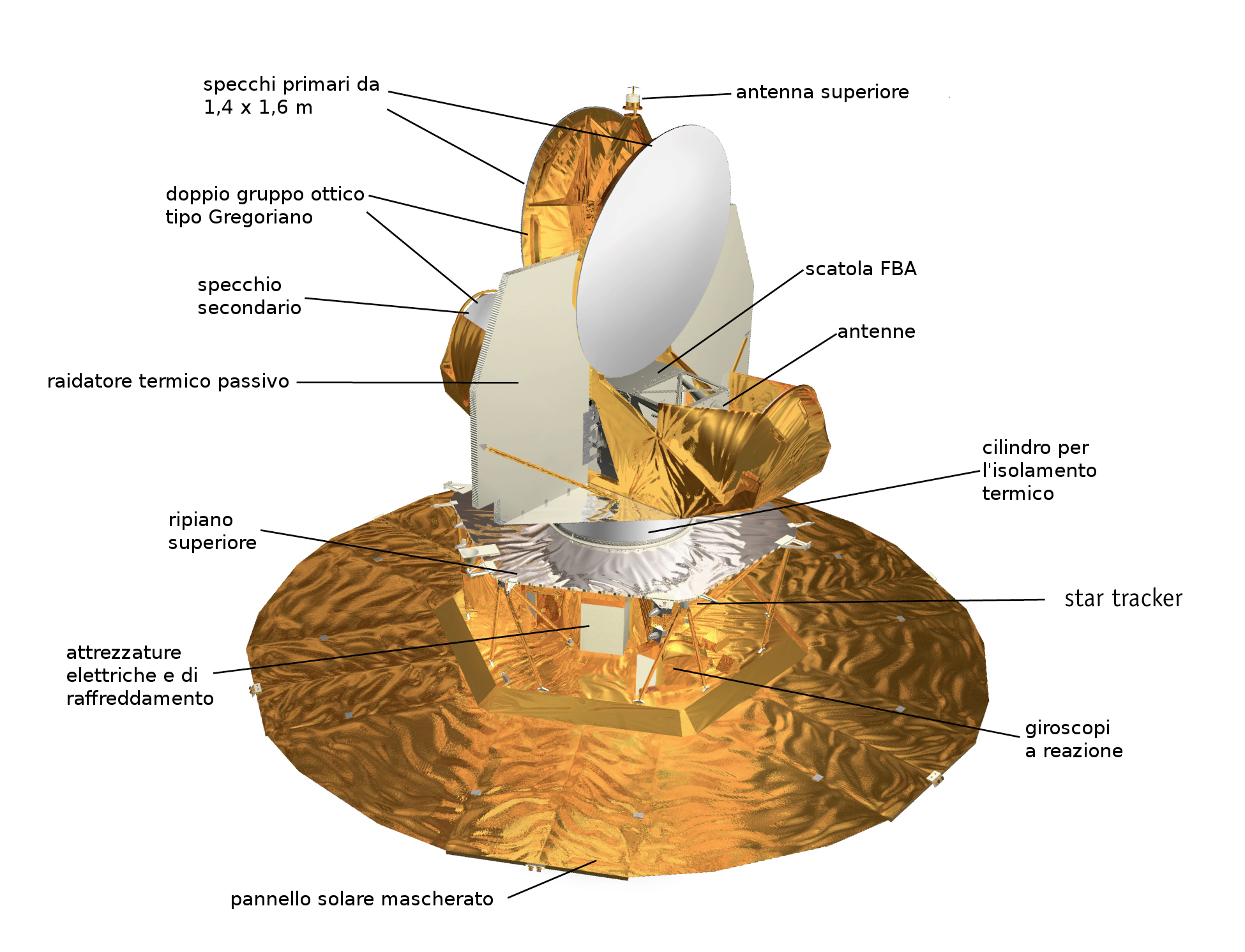 WMAP.